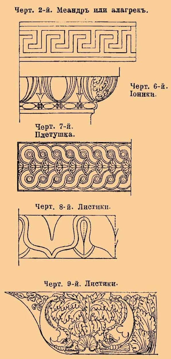 Part of the drawing from an 1891 book